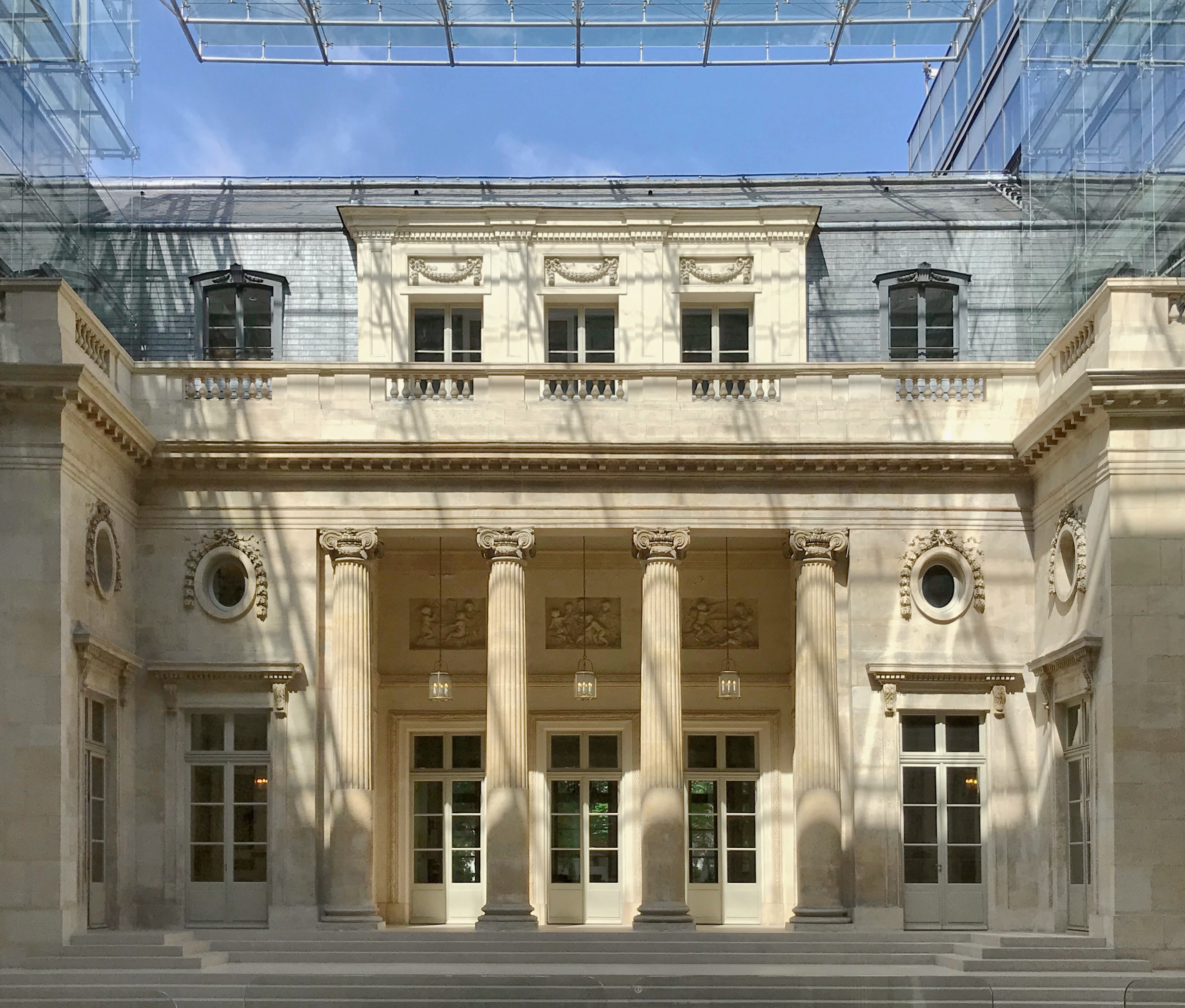 Hôtel Alexandre by Étienne-Louis Boullée